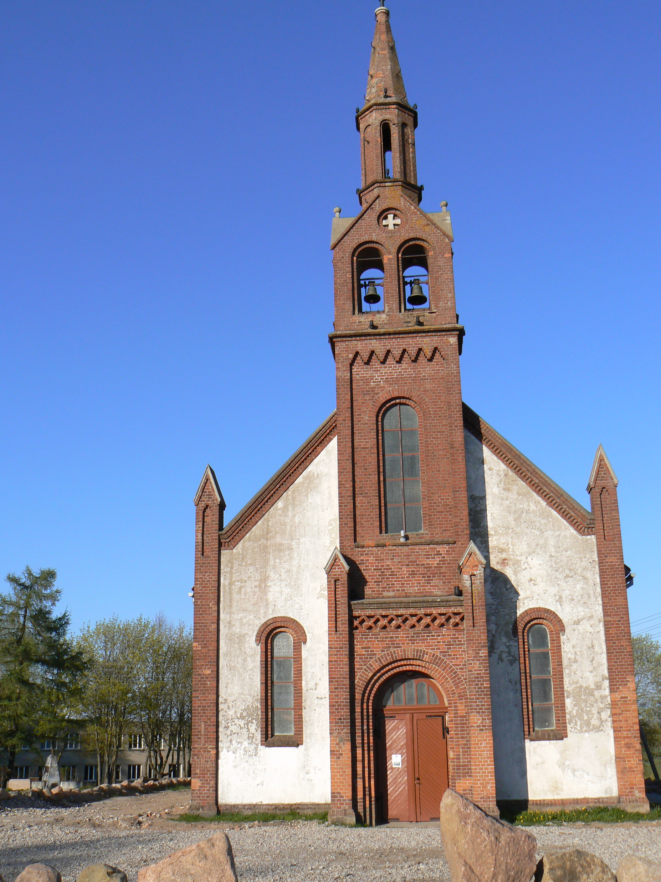 Lutheran church in Kretingalė